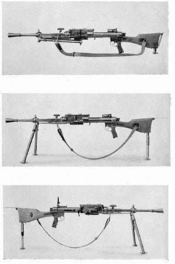 WWII era italian light machine gun